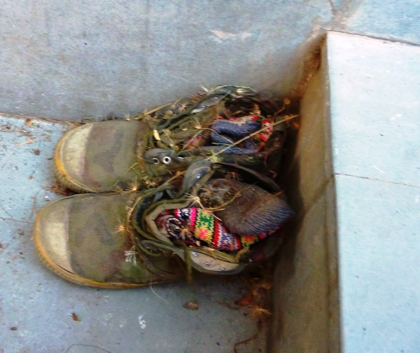 I took this photo on pilgrimage earlier this year